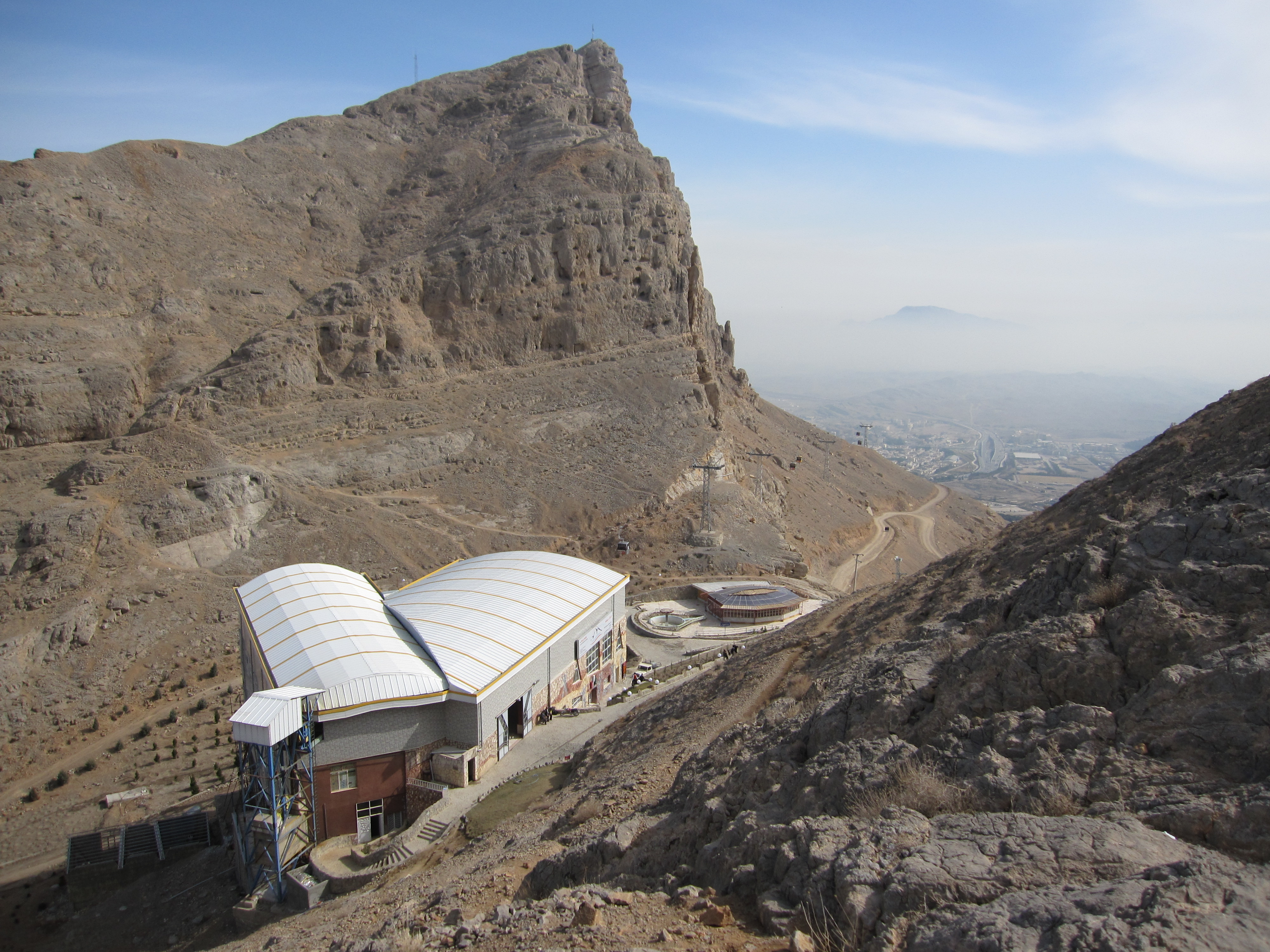 Iran - Esfehan - Soffeh view & Telecabin station